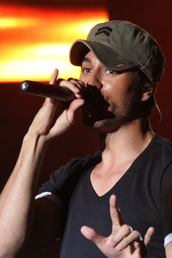 Enrique Iglesias in concert